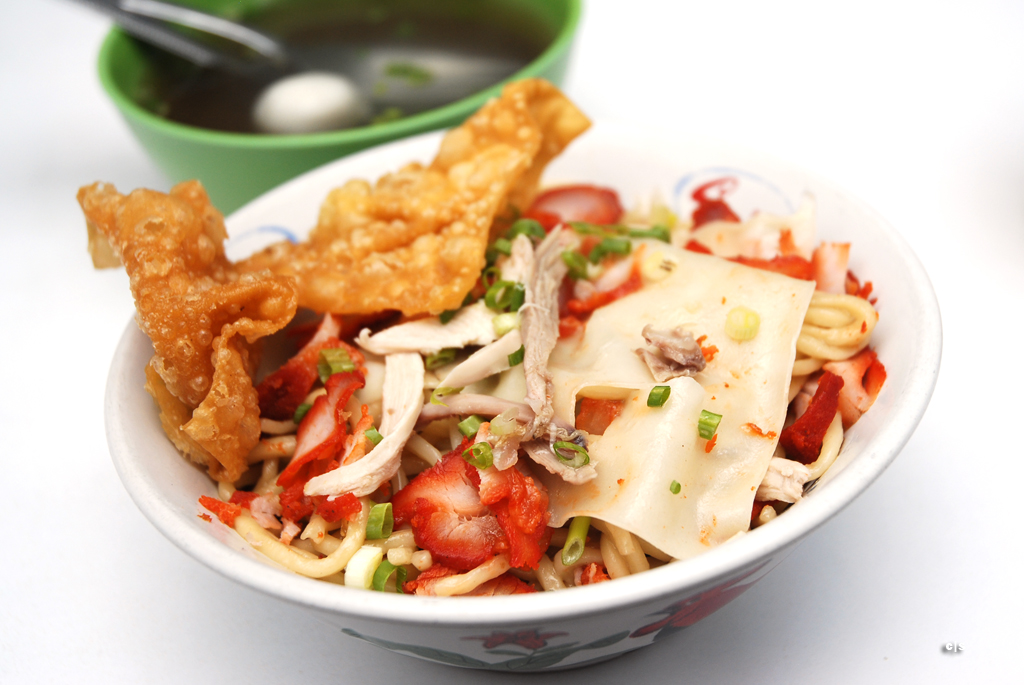 Ujung Pandang Noodle in Makassar, served with BBQ pork, chicken, wonton, and fried wonton